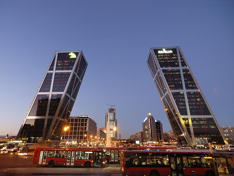 View from Plaza de Castilla (square) in Madrid (Spain). Right and left: the two Gate of Europe inclined buildings. Background: Cuatro Torres Business Area.